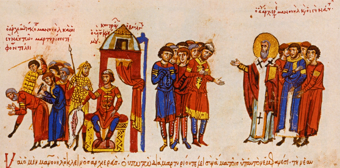 Kourtagan - decapitation of christians